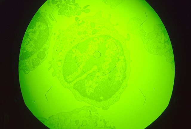 Macrophage cell in early stages of infection with African swine fever virus, magnified about 1,000x. Hogs" (published by the Agricultural Research Service of the USDA)[1] Photo credit:USDA Research at the Plum Island Animal Disease Center.